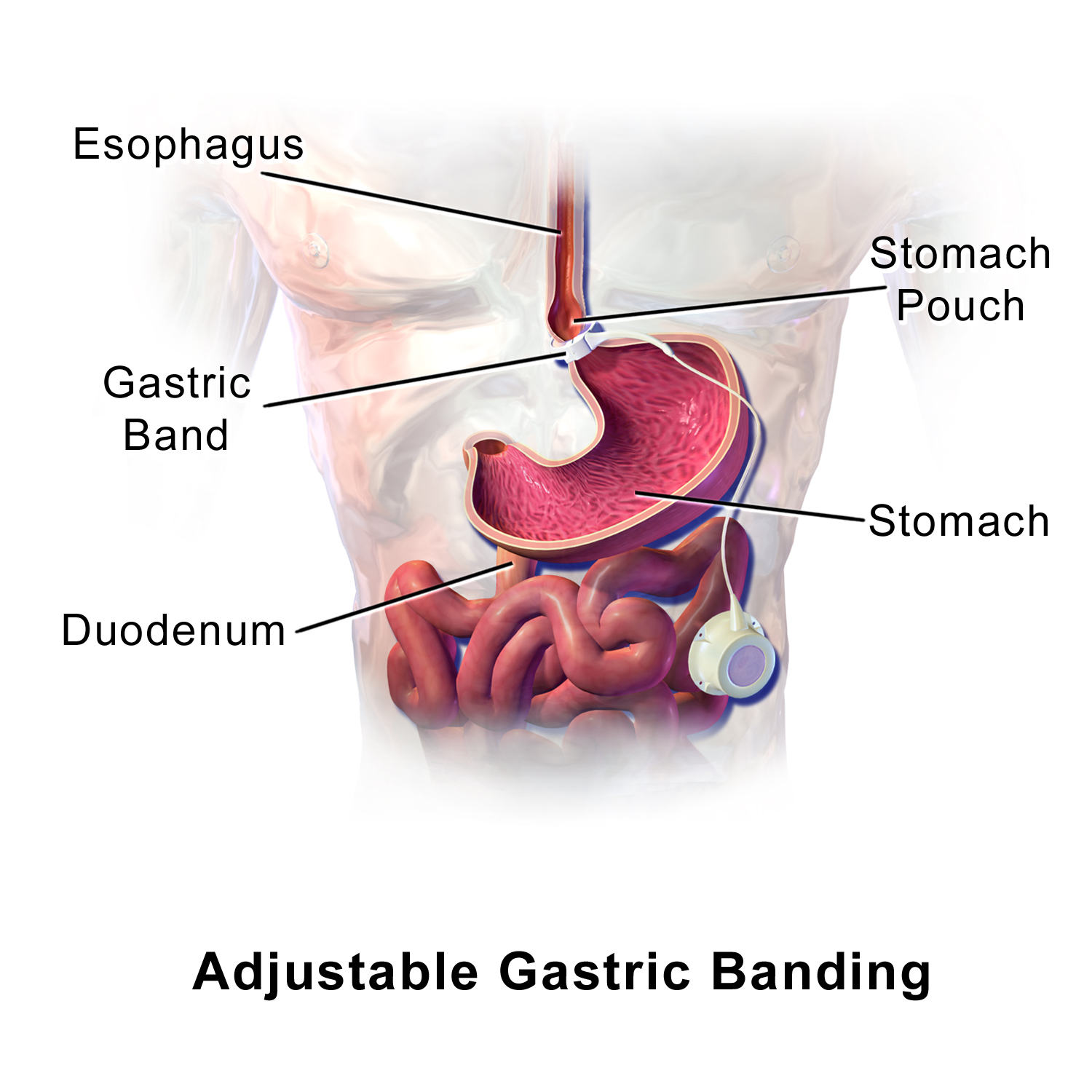 Adjustable Gastric Banding. See a full animation of this medical topic.